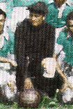 Joseph Nalbandian with Sika Club in 1935, during the inauguration of the Municipal Stadium of Beirut.